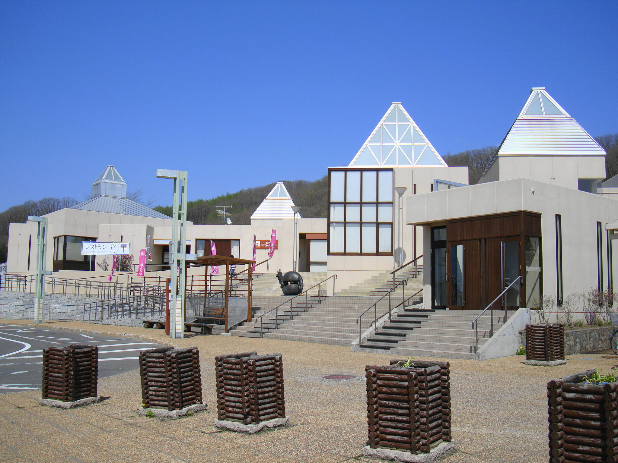 Michinoeki Stella Honbetsu (formerly Honbetsu Station of Hokkaido Chihokukogen Railway)